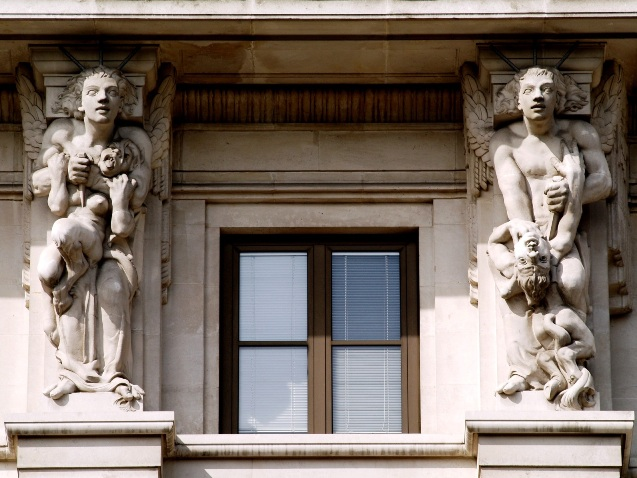 Statuary at 33 Grosvenor Place Barbaric design by Maurice Lambert on what was then the HQ of Associated Electrical Industries. I can only assume that it represents the mindset of wealthy patrons involved in what was known as The Cold War.